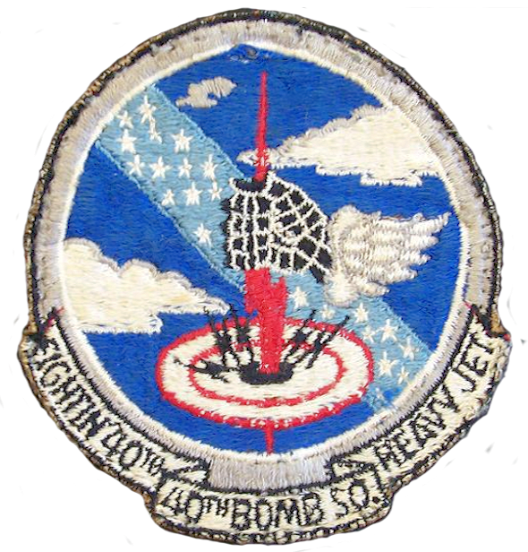 Emblem of the 40th Bombardment Squadron (SAC) (B-36 Era)